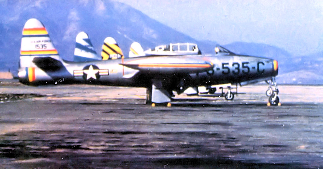 69th Fighter Squadron Republic F-84E-25-RE Thunderjet 51-535 Taegu Air Base (K-2), South Korea. Marked in Wing Commander's motif